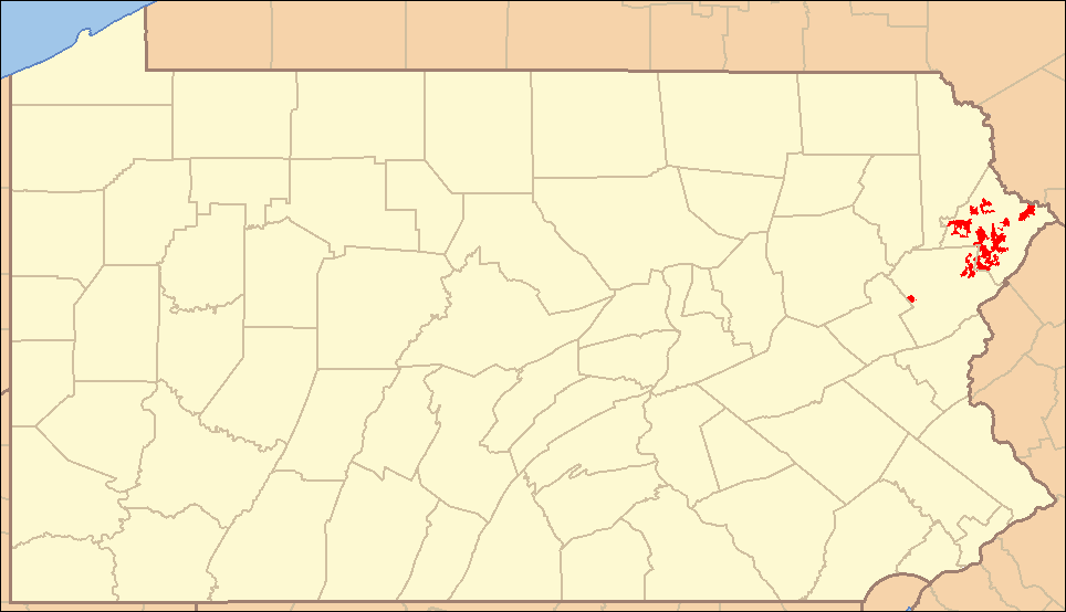 Locator Map of Delaware State Forest, Pennsylvania, United States